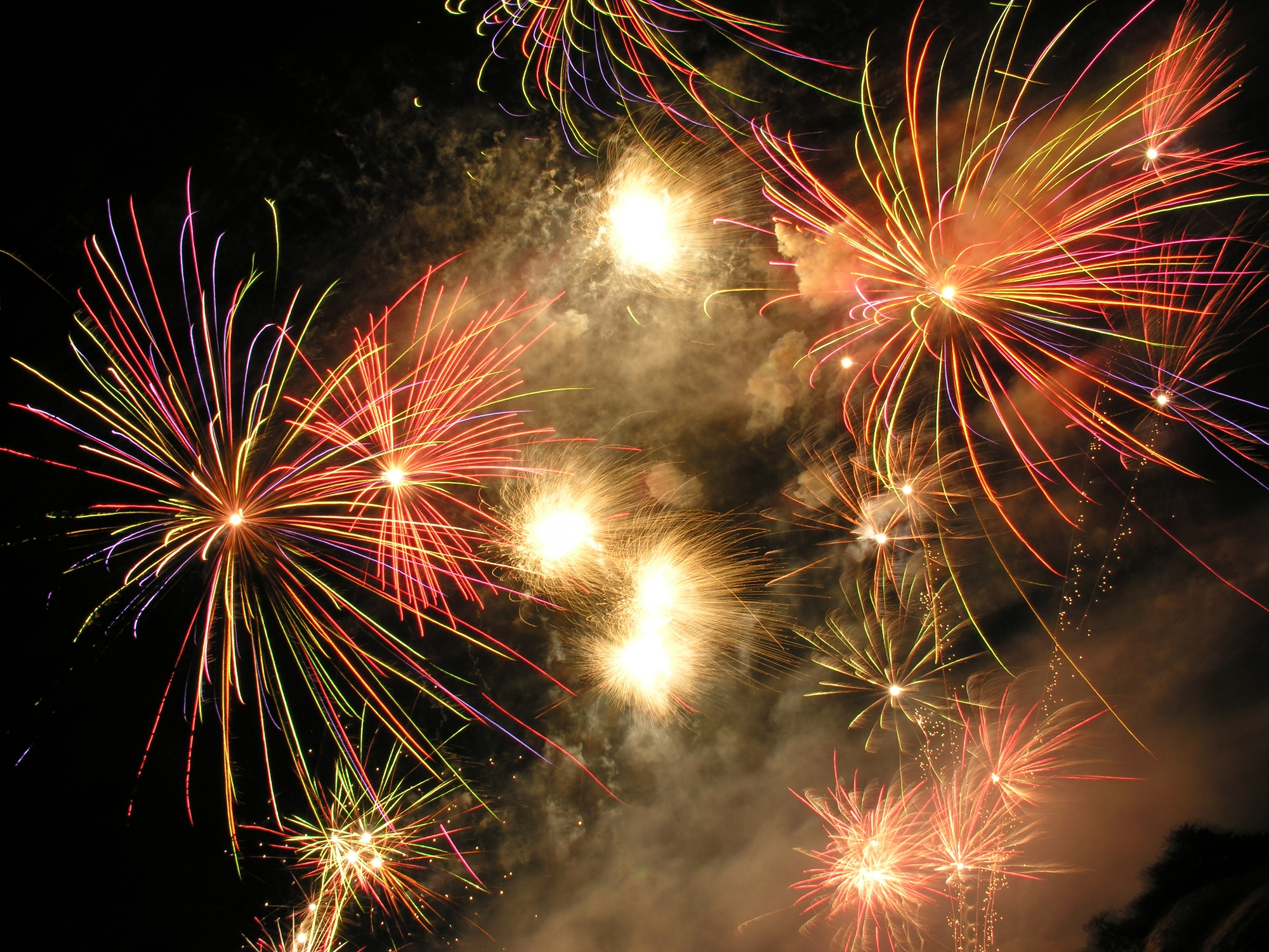 Fireworks, Santiago de Compostela, Galicia, Spain